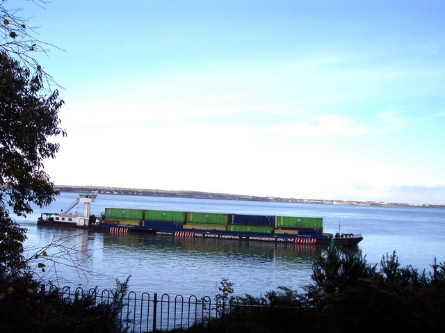 Container Barge,Eastham Ferry